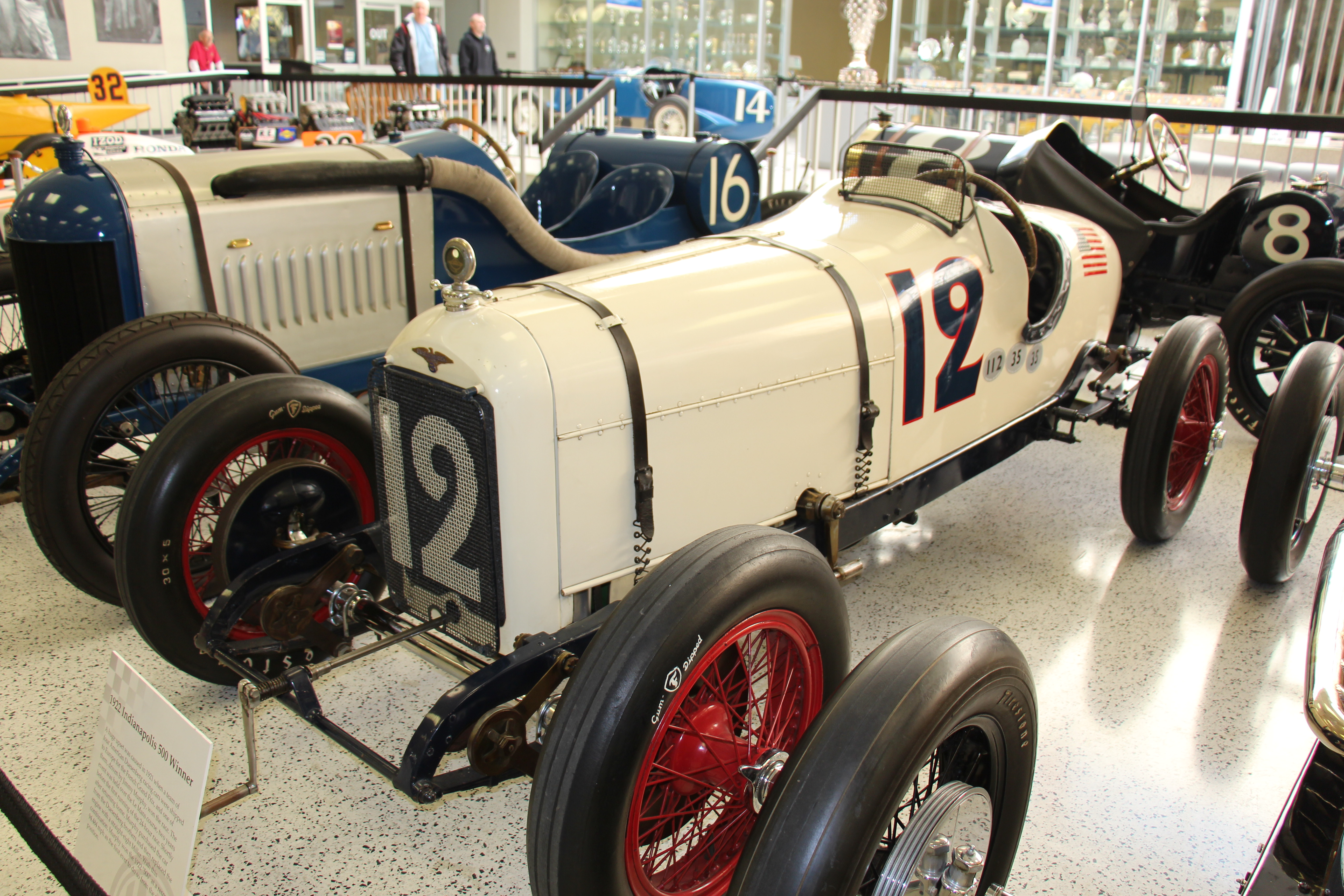 The Duesenberg No 12 Murphy Special, the only car ever to win both Indianapolis 500 (1922) and the French Grand Prix at Le Mans (1921). The 10th International 500-Mile Sweepstakes Race was held at the Indianapolis Motor Speedway on Tuesday, May 30, 1922. Jimmy Murphy was the first driver to win the race from the pole position. He was accompanied by riding mechanic Ernie Olson. Photographed at The Indianapolis Hall of Fame Museum